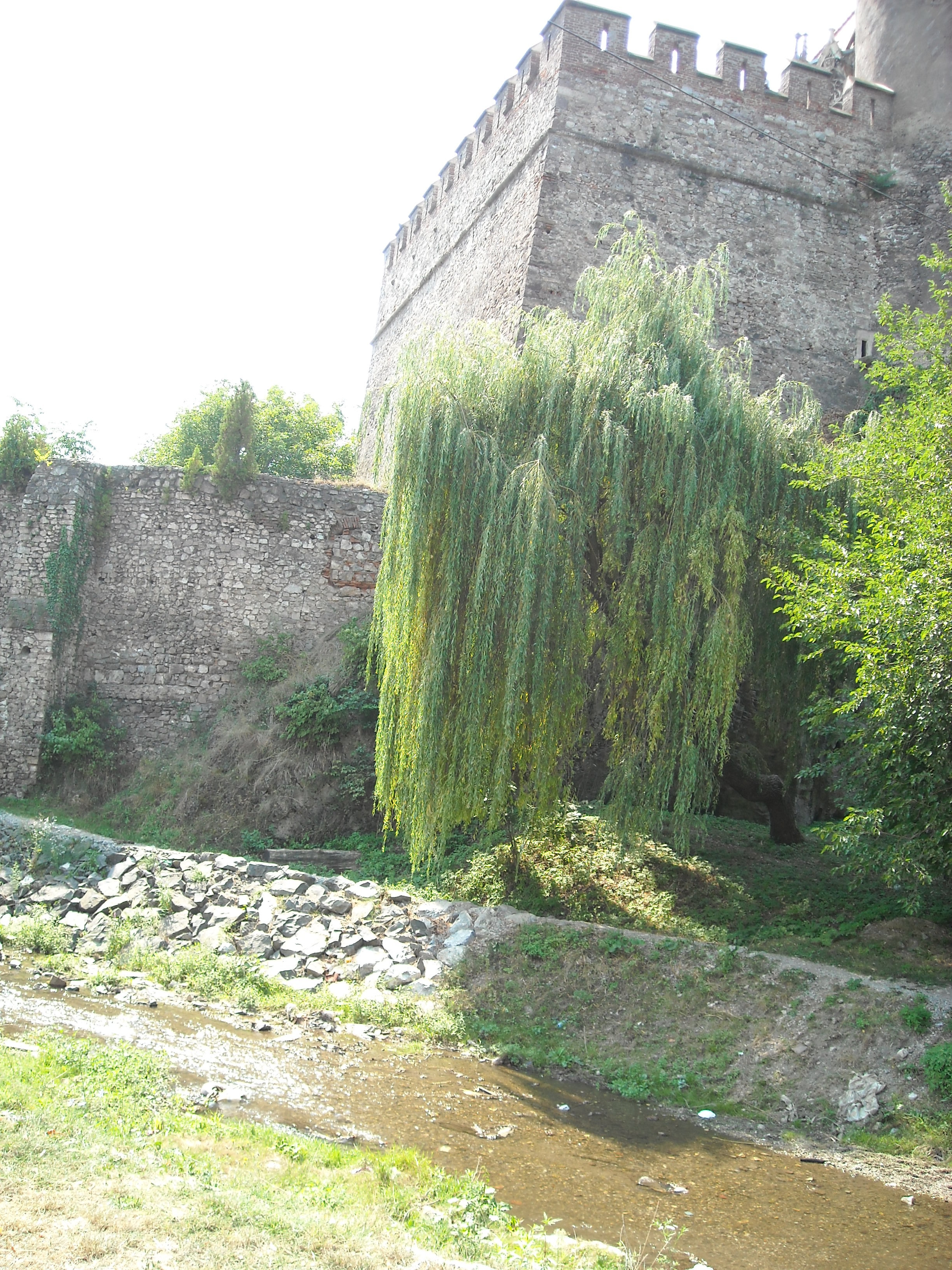 weeping willow in the castle's moat, over the Zlaşti creek